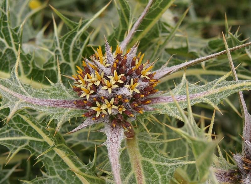 Tumble Thistle (Gundelia tournefortii), Plants of Israel